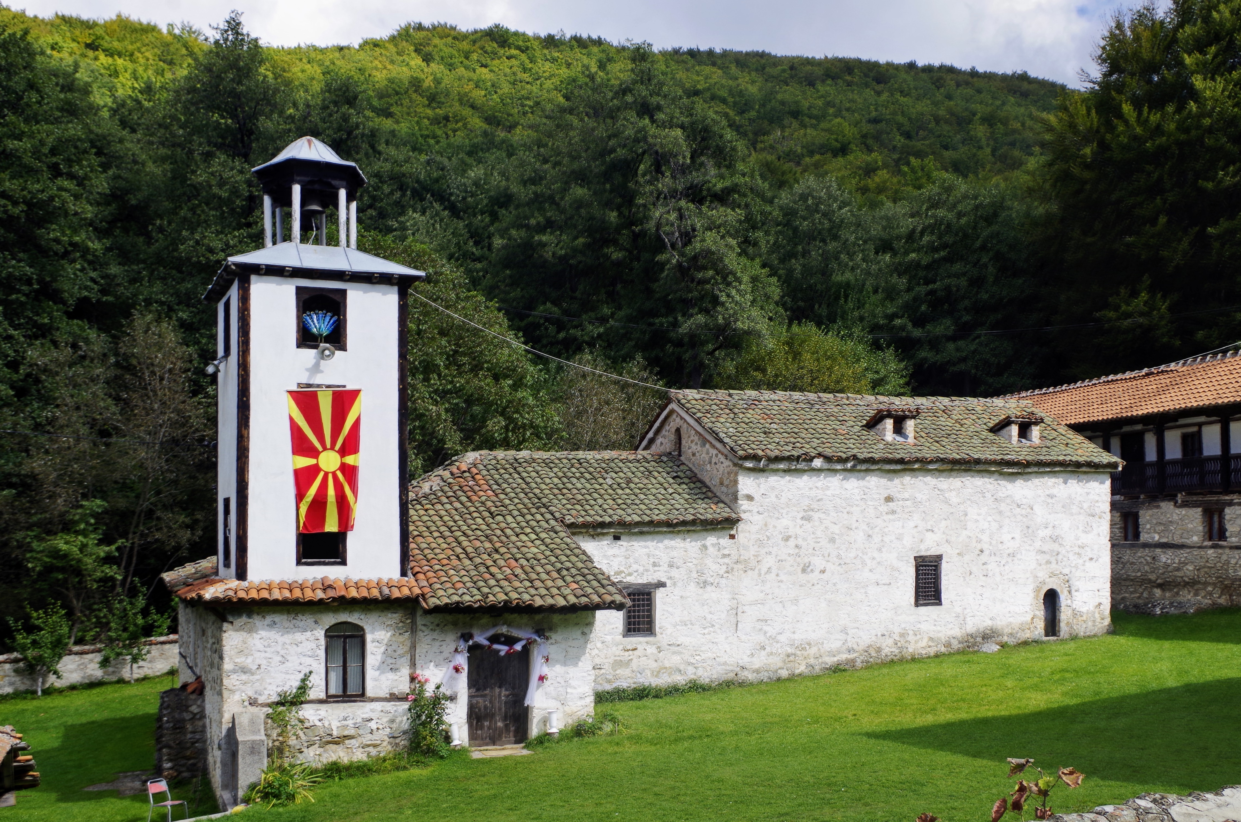 View of the Nativity of the Theotokos Church in the village Slivnica